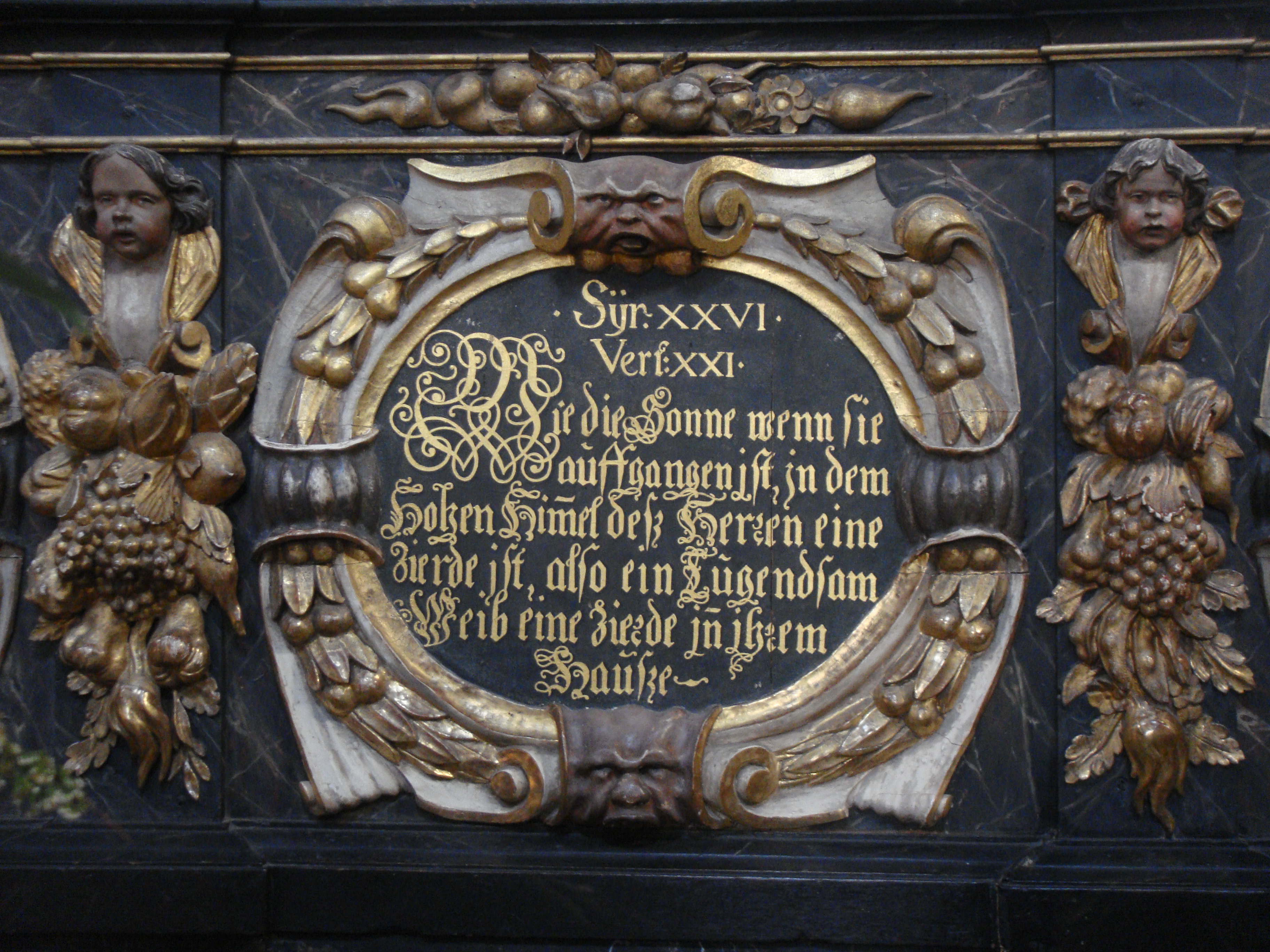 Unionskirche Idstein, detail of the Baroque decoration at the "Reiterchörlein" (Rider's choir), left aisle, inscription of verse Jesus Sirach 26:16 (marked 26:21)